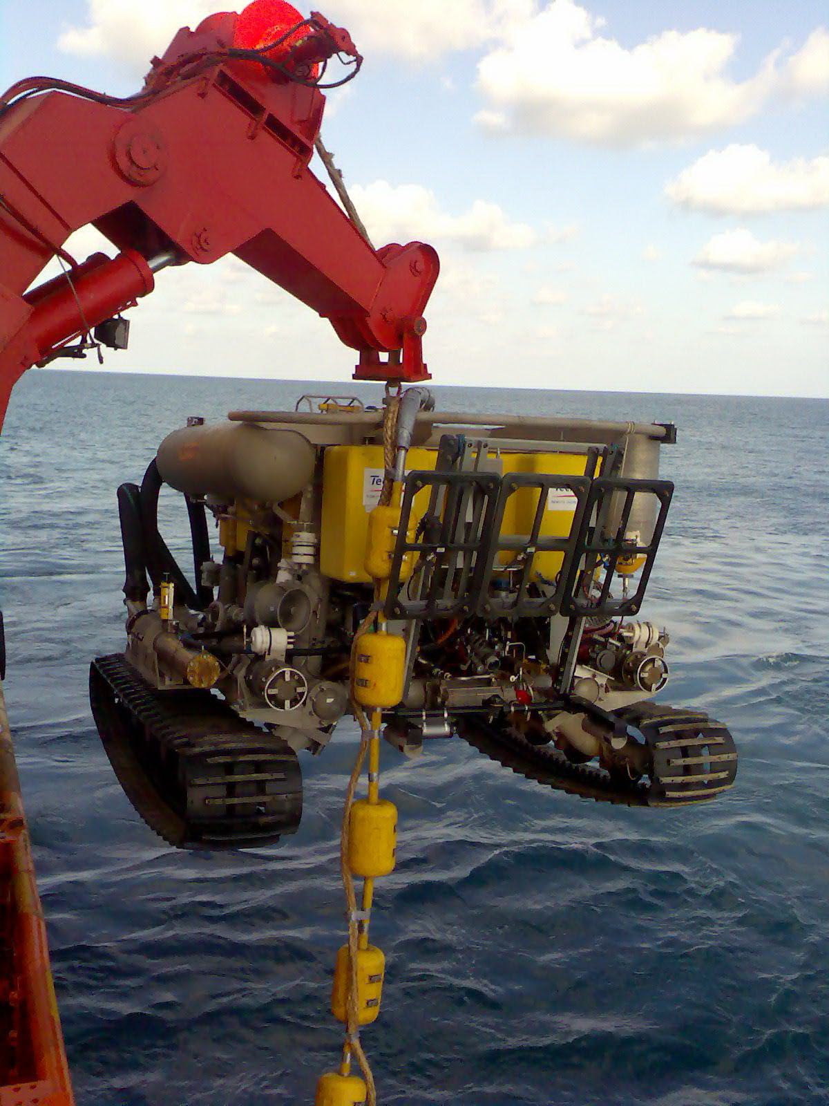 Flexjet